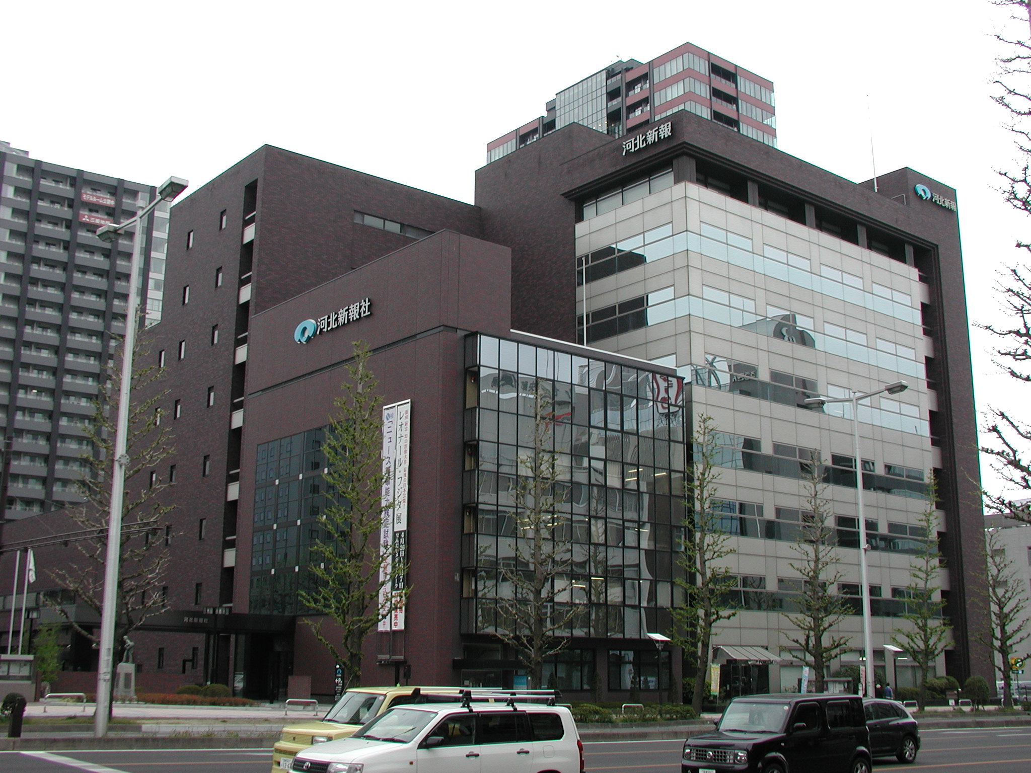 The Kahoku Shimpo Head Office